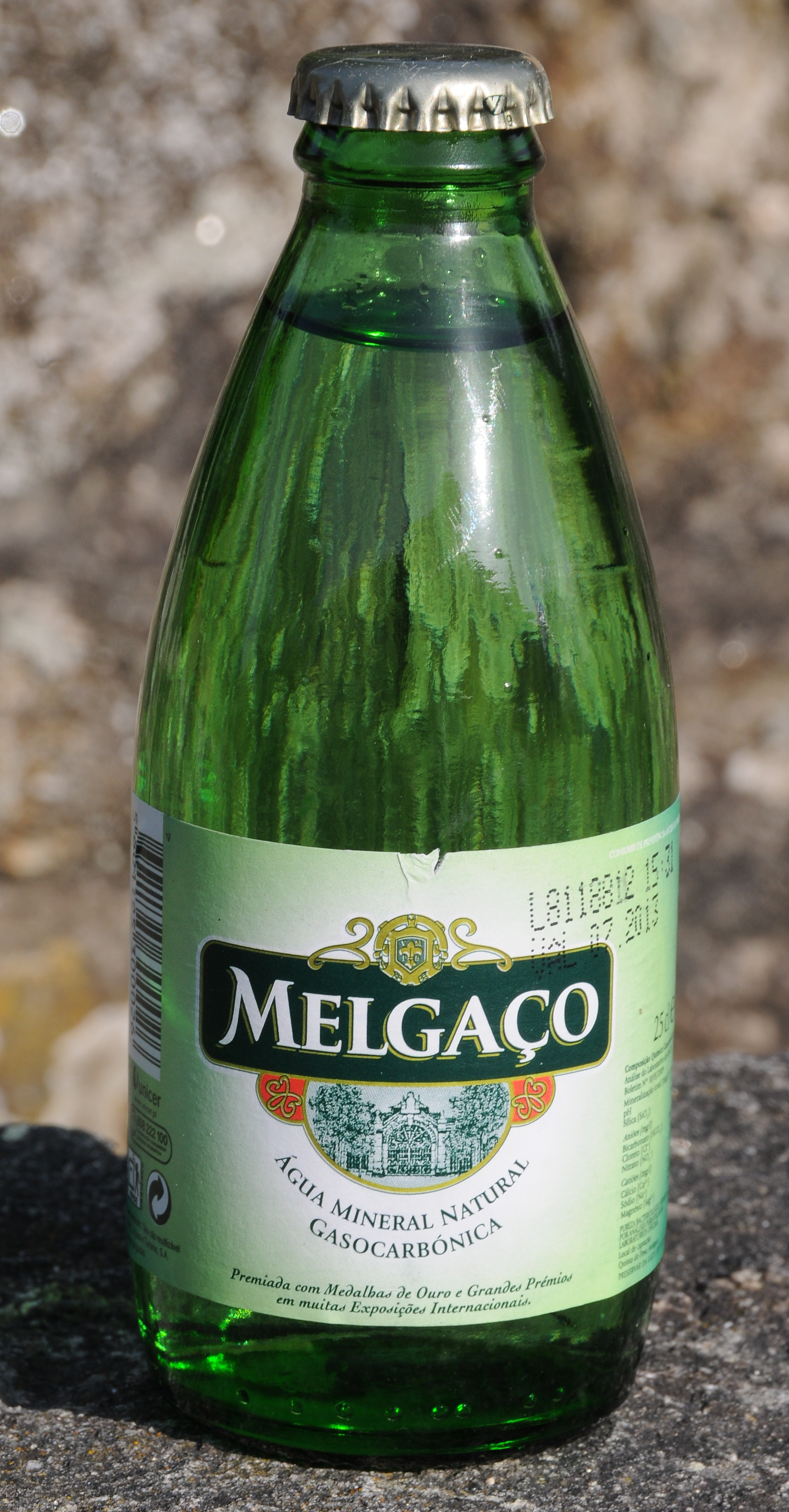 Bottle of Melgaço water.